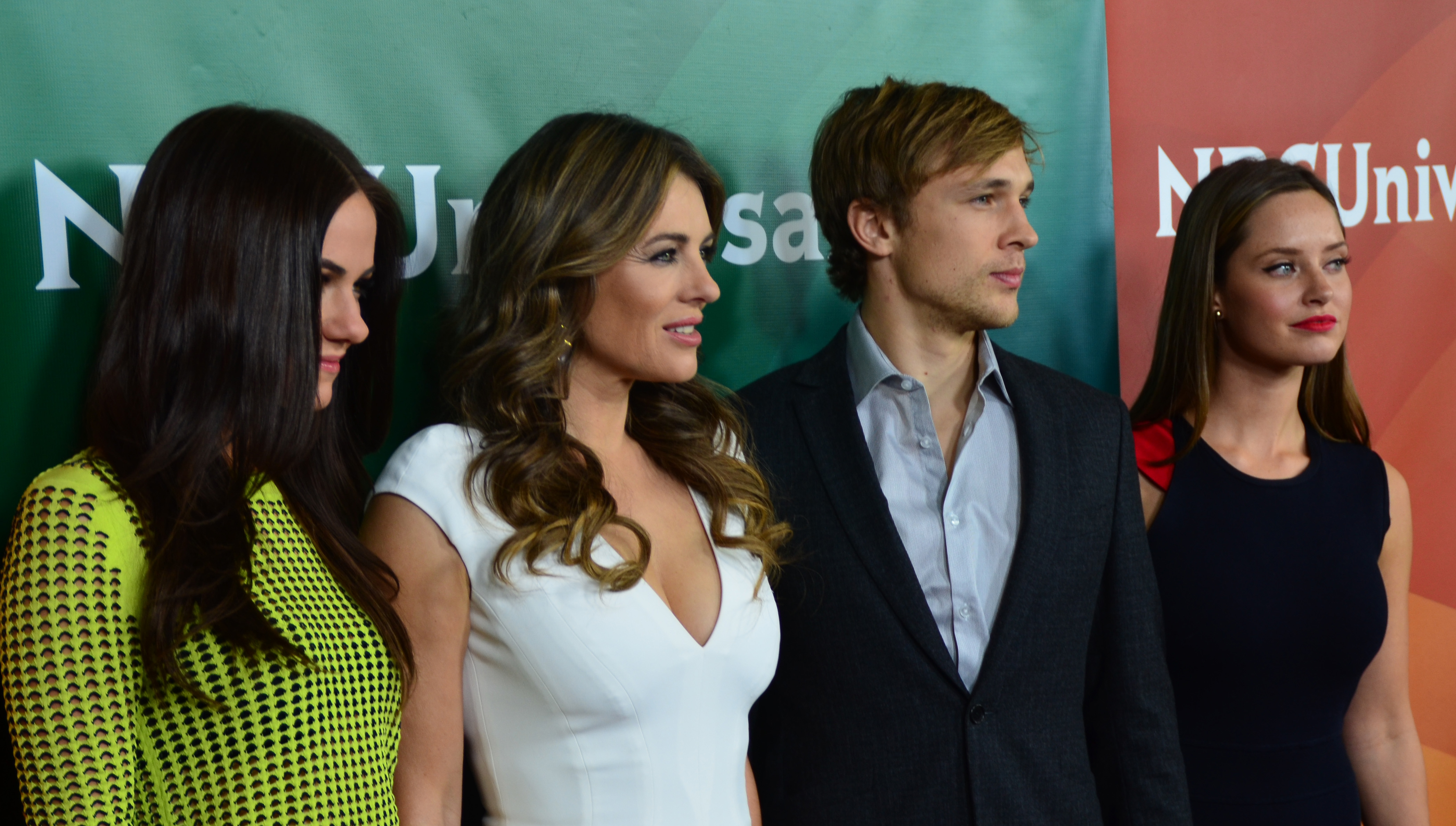 Alexandra Park, Elizabeth Hurley, William Moseley & Merritt Patterson at the 2015 Television Critics Association’s Press Tour for the NBC Universal TV show announcements, interviews with cast and creators at The Langham Huntington Hotel in Pasadena, CA on January 15, 2015